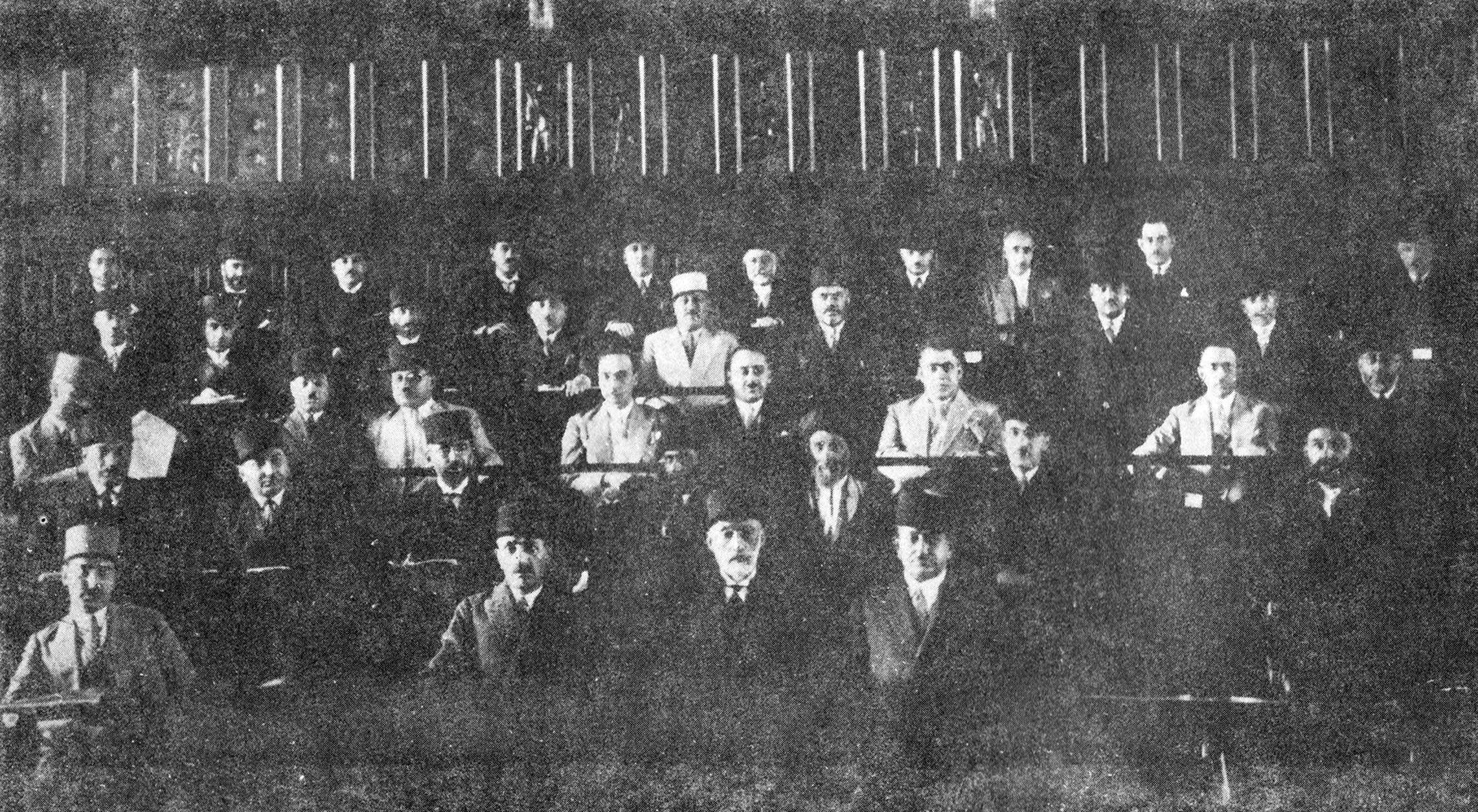 Representatives Majlis 7 1307-1309, first row: Prime Minister Hedayat, Sardar Asad Bakhtiari (war minister), Mohammad Ali Farzin (foreign minister)